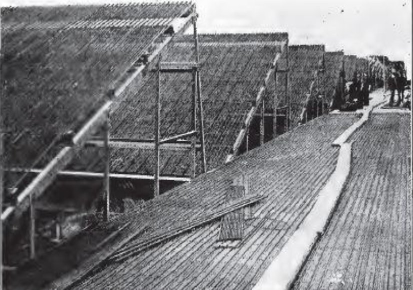 Hy-Rib saw-tooth roofs